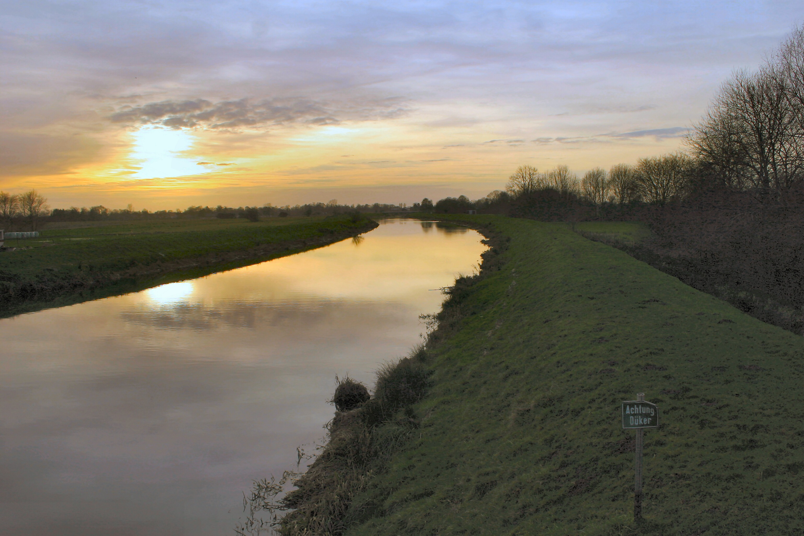 Sauteler Kanal, a drainage canal in East Frisia, Germany, dug in the 1970s. The photo depicts a part of it near Neuefehn, district of Leer.